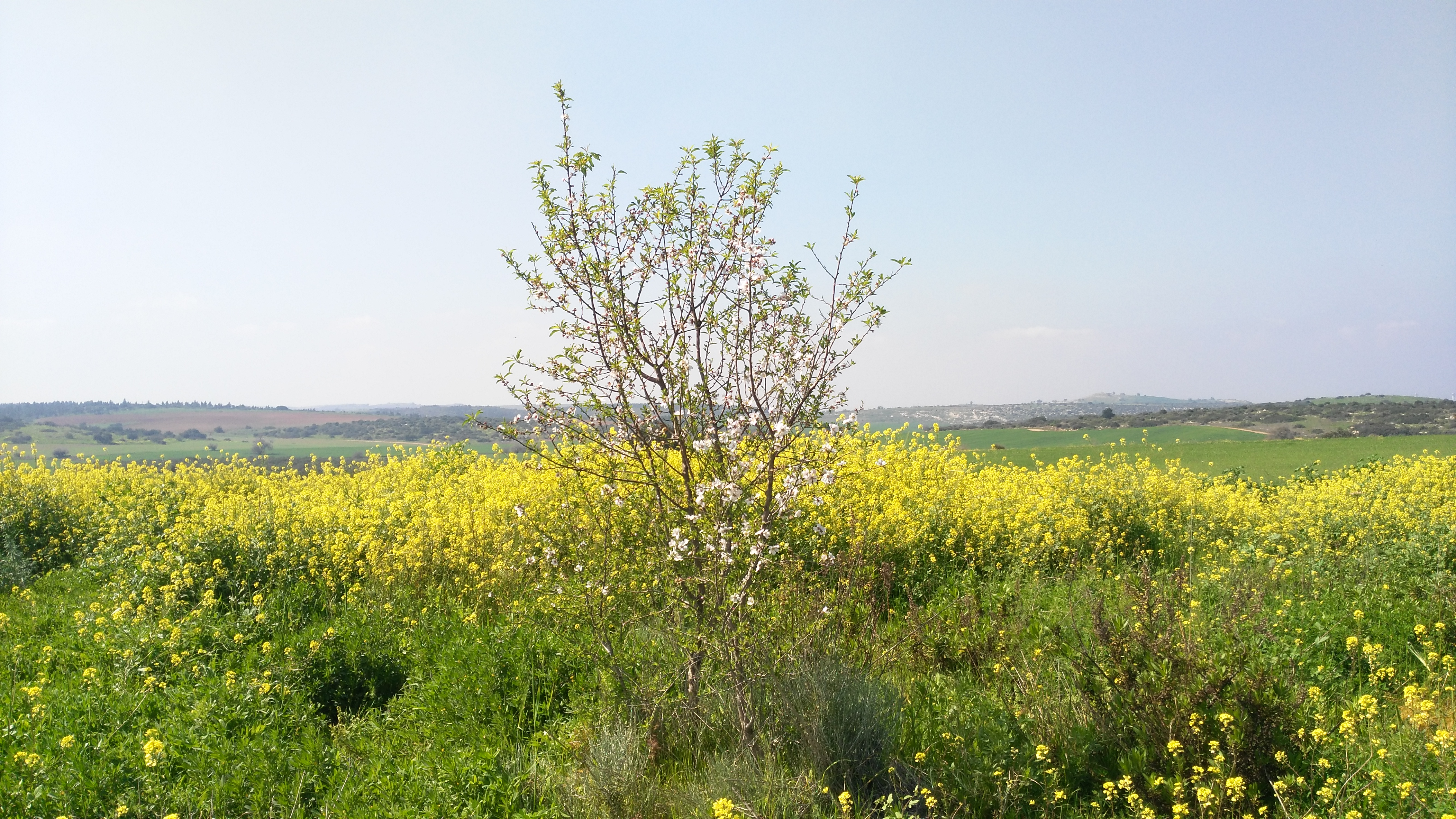 Almond tree